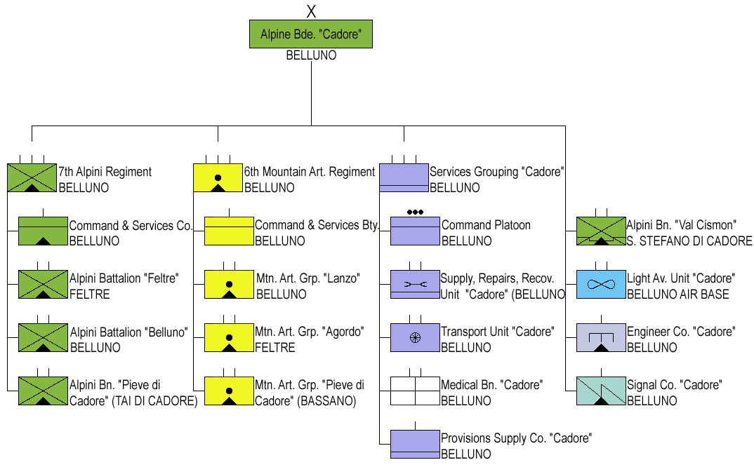 Structure of the Italian Army "Cadore" Alpine Brigade in 1974